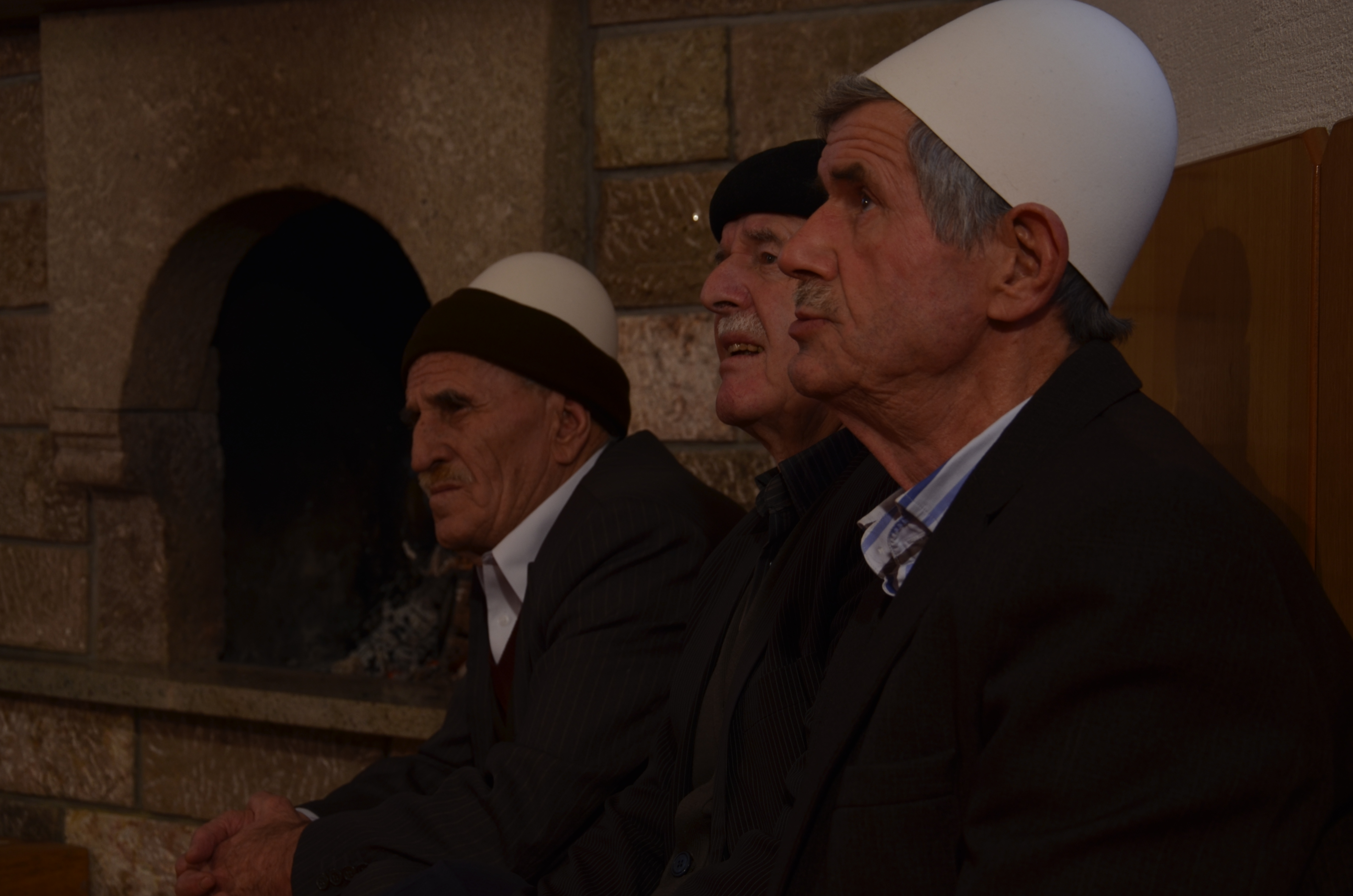 This shows the memories of old times in modern time. Three elders sitting in "ODA" (the men's room in older times); that explains the fact of new generation tending and inheriting the previous guest rooms.